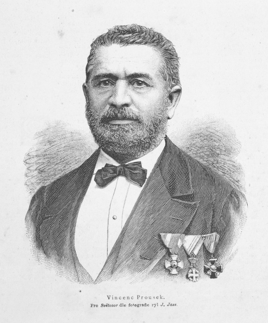 Portrait of Vincenc Prousek (1823-1900), also known as Čeněk Prousek, Czech and Austrian civil servant, school reformer and journalist.